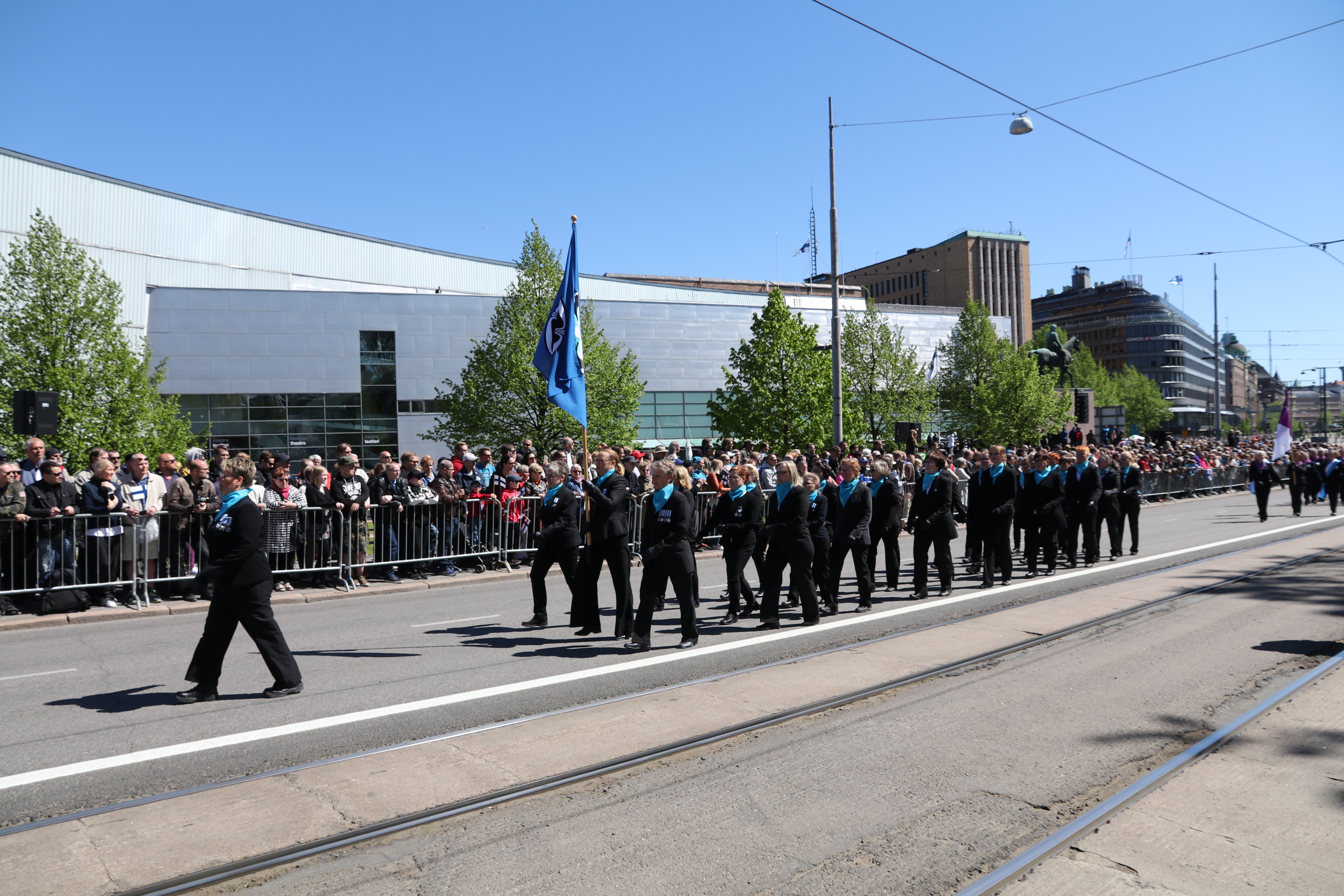 Finnish defence forces flag day 2017 parade: Women's defence organization.